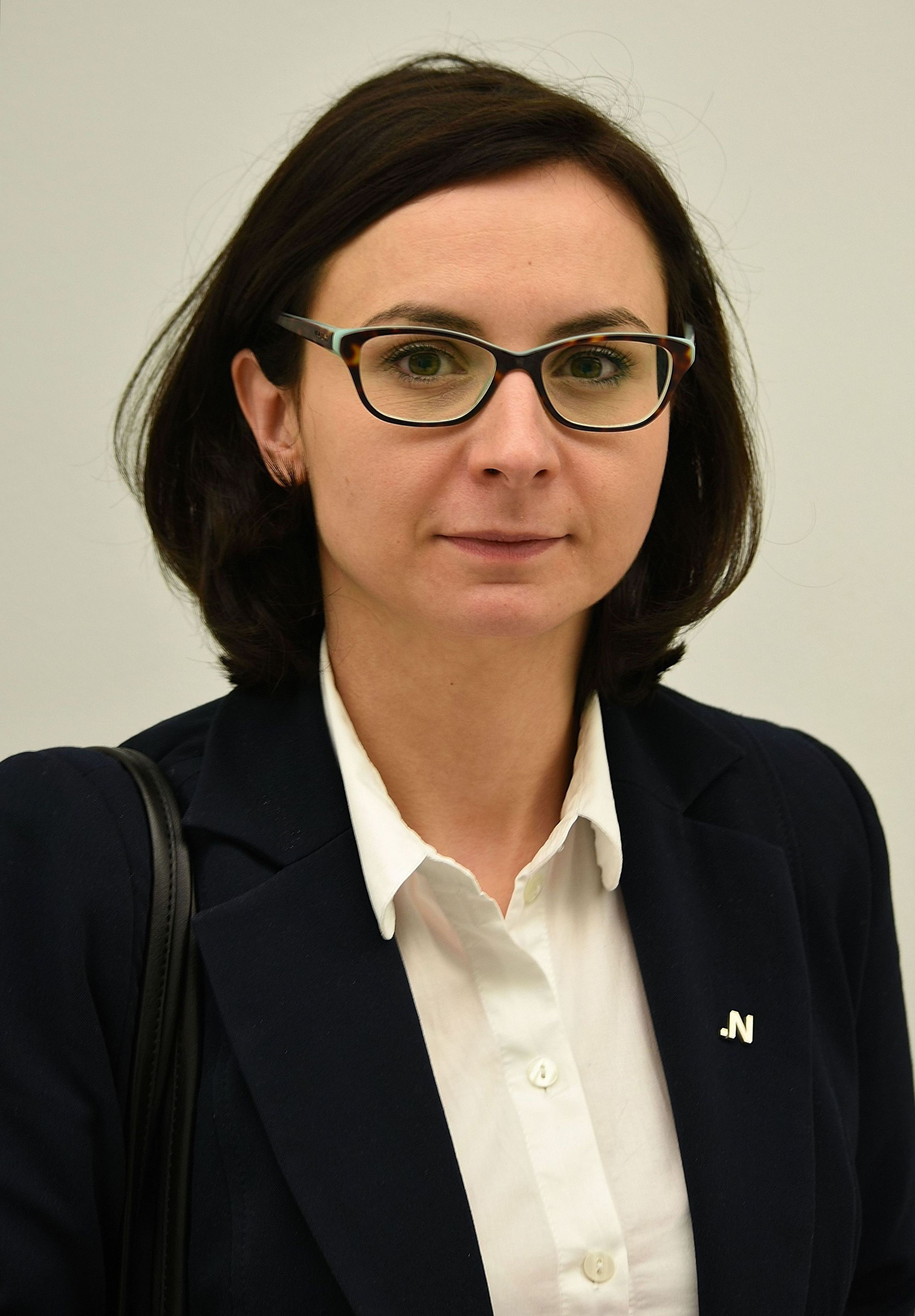 Polish MP Kamila Gasiuk-Pihowicz in the Sejm